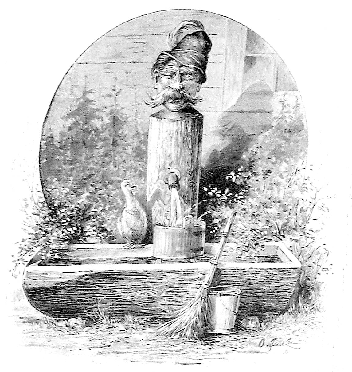 caption: "Der Brunnen beim „Bürgerbräu“ auf der elektrotechnischen Ausstellung in Frankfurt a. Main. Nach einer Zeichnung von O. Flecken."